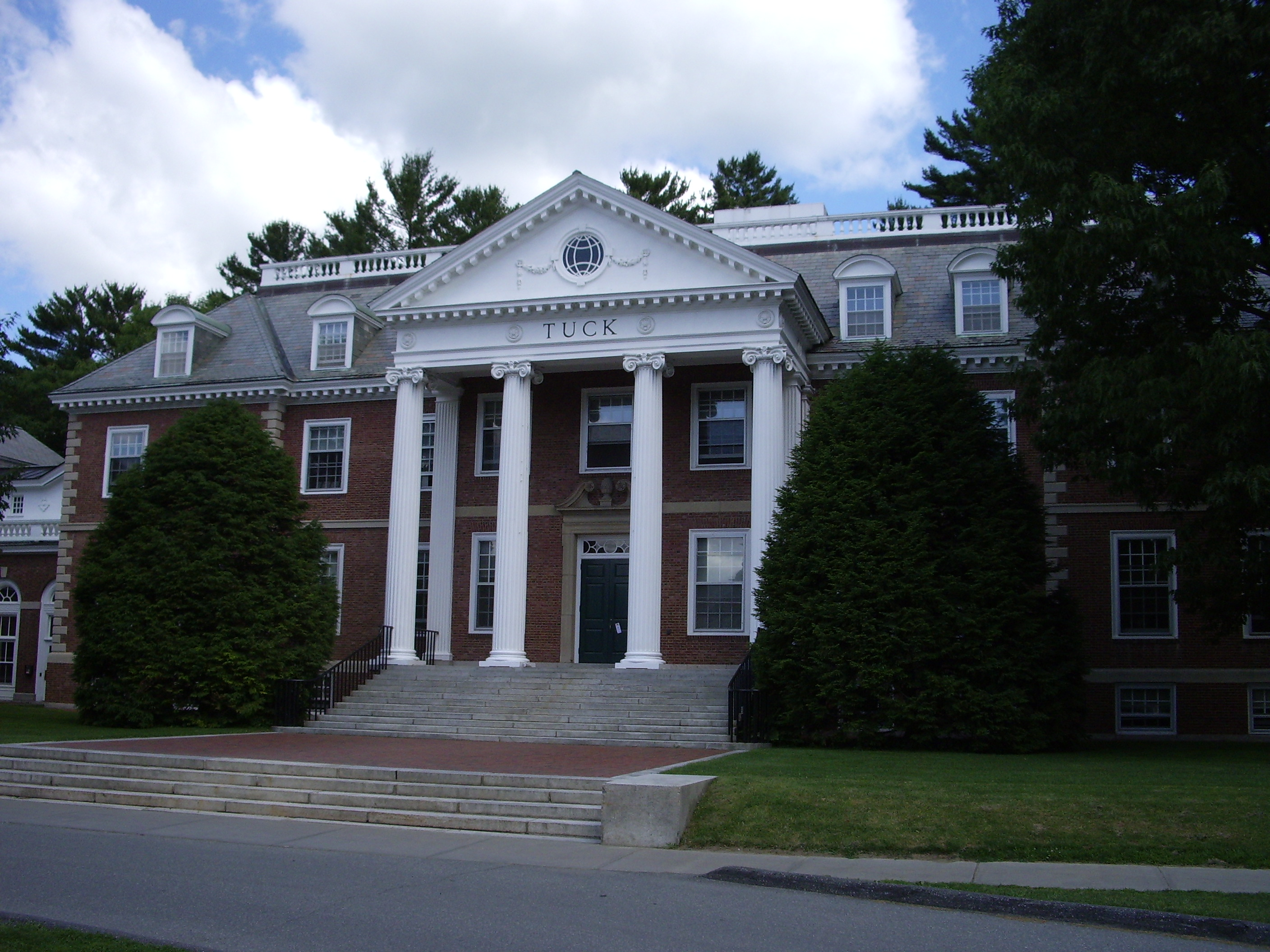 Photograph of the Tuck School of Business at the campus of Dartmouth College in Hanover, New Hampshire.